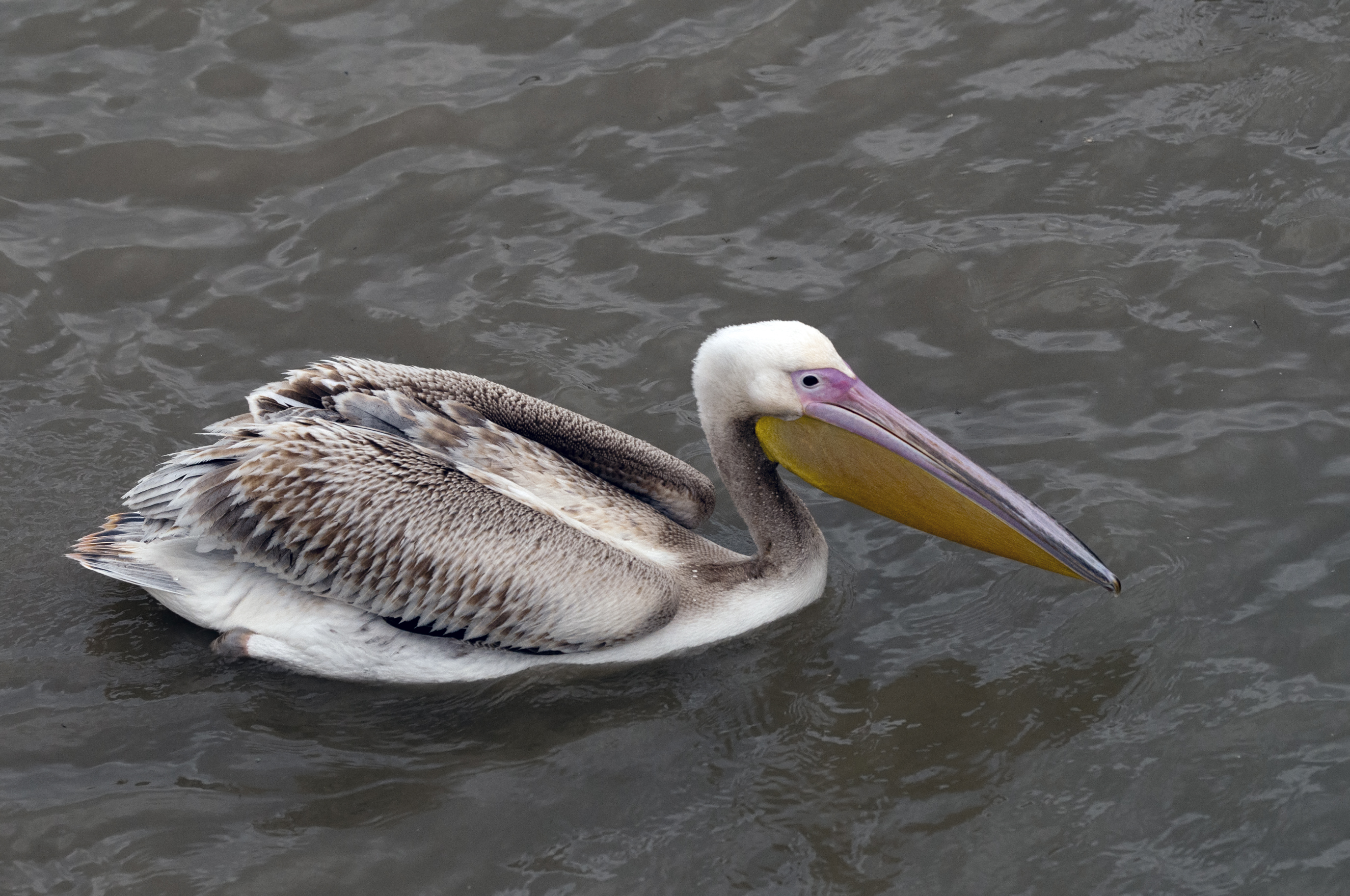 An immature Great White Pelican (Pelecanus onocrotalus).